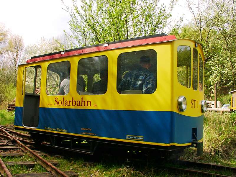 The realized prototype of a solar-railway, named "ELSE" (abbr. for german "Elektrische Solar Eisenbahn" (Electric Solar Railway) ) look also (Picture by D. Hoffmann)